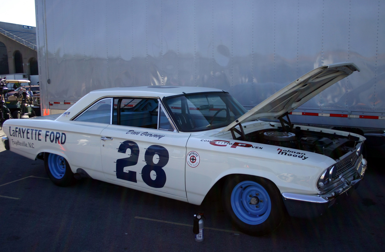 Dan Gurney's #28 NASCAR racecar. He only raced in a #28 Ford Galaxie car in 1963, and it was for owners Holman-Moody.